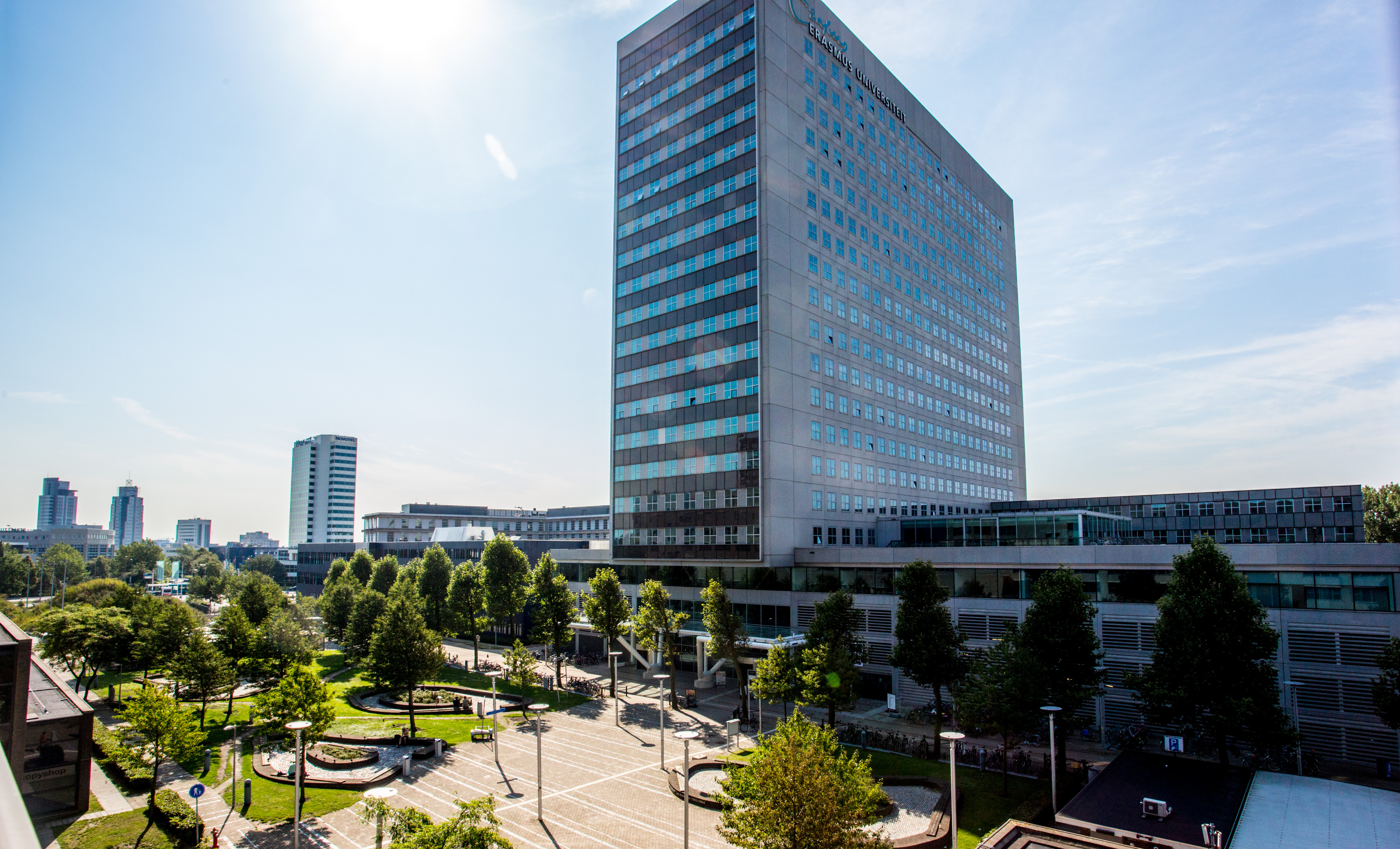 RSM Eramus University Campus summer